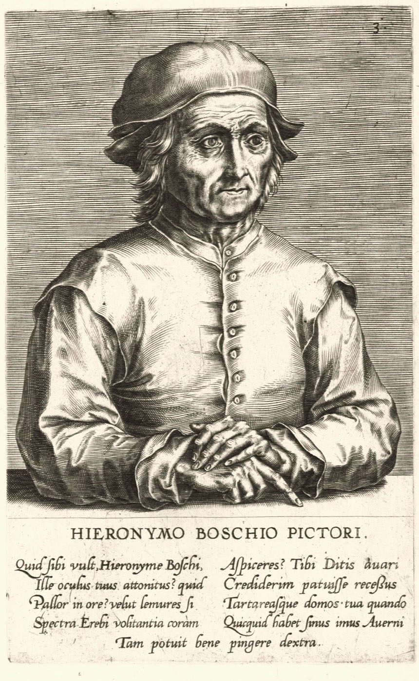 Portrait of Hieronymus Bosch attributed to Cornelis Cort, engraving, 1572, from the Pictorum aliquot Germaniae Inferioris Effigies by Dominicus Lampsonius